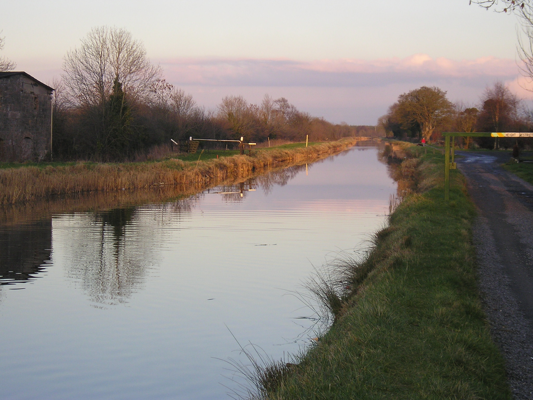 Taken by John Fitzsimons. Full permission to use granted